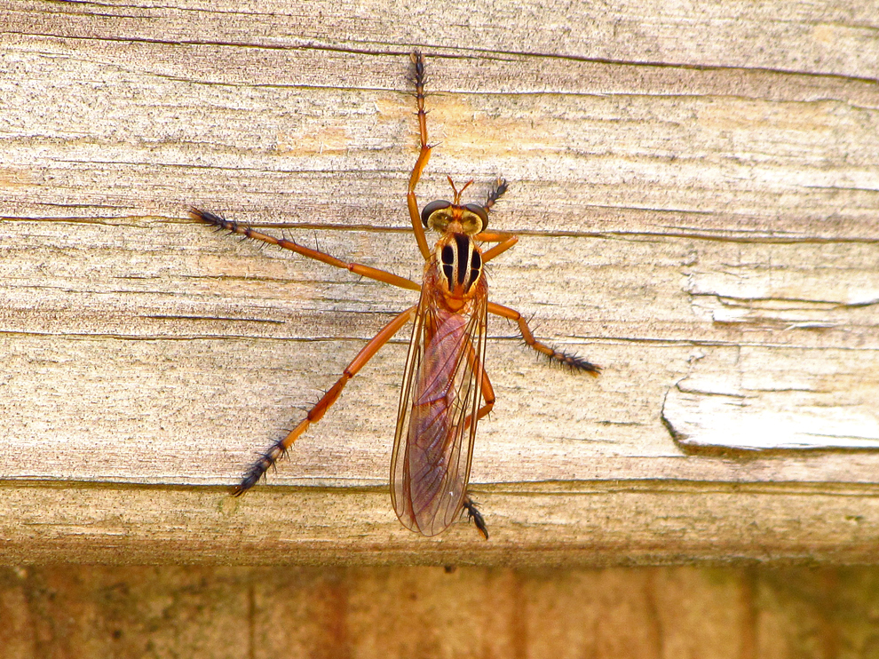 Hanging thief fly (almost certainly Diogmites neoternatus) resting on a wooden fence. Top view.